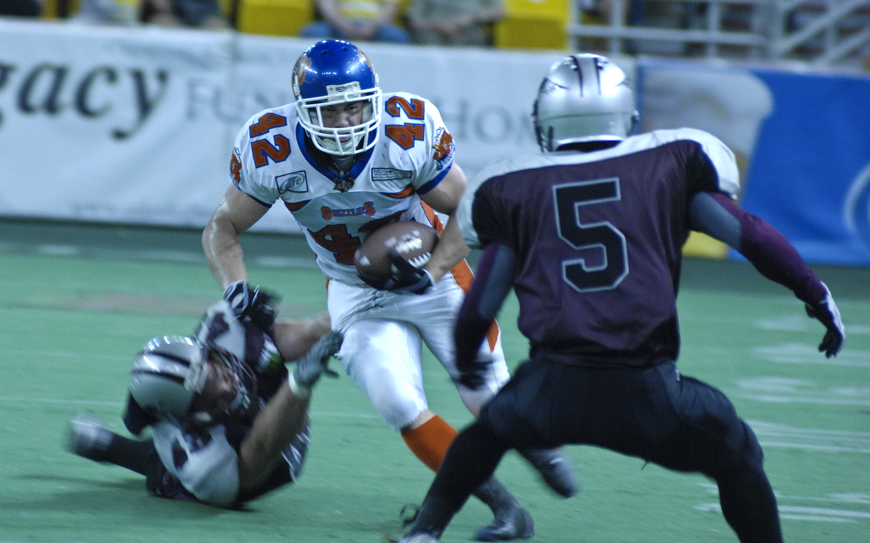 Alaska Wild football player Joe Small prepares to tackle Fairbanks Grizzlies runner Michael Quinn during the first half of the Alaska Wild's season finale game against the Fairbanks Grizzlies July 9.. Tongate is a technical sergeant assigned to the Elmendorf Fire and Emergency Services. VIRIN: 090709-F-1322C-013